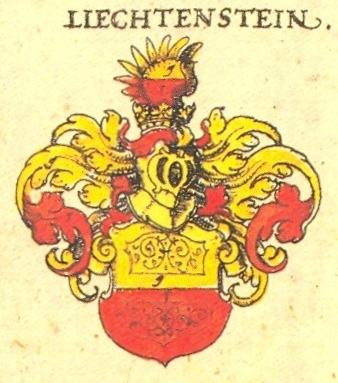 Coat of arms of Liechtenstein